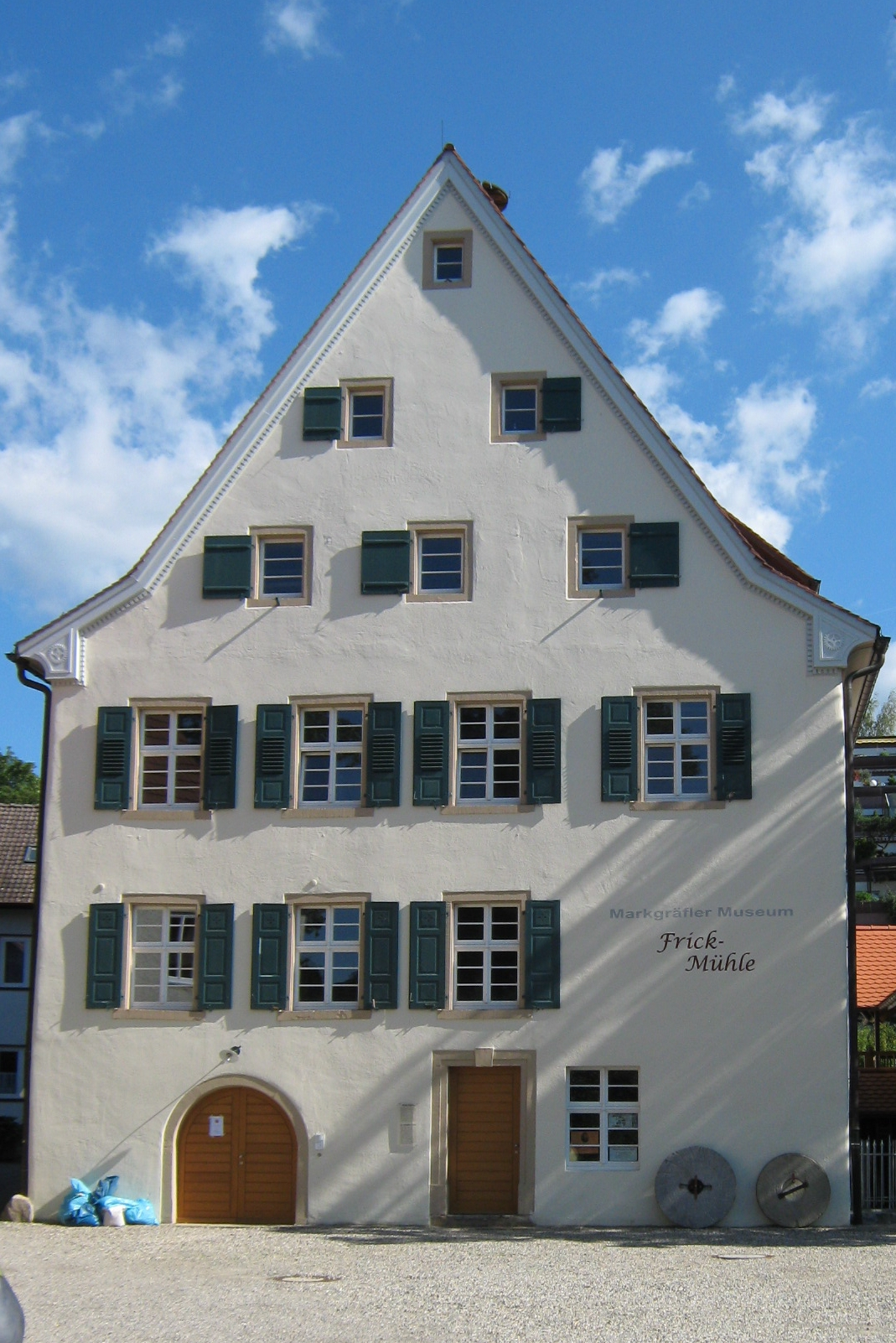 The old mill of grains in the town Müllheim (Baden, Germany), using the water of the little river "Klemmbach", called after the earlier owners, the family "Frick", today a museum, "Markgräfler Mühlenmuseum".